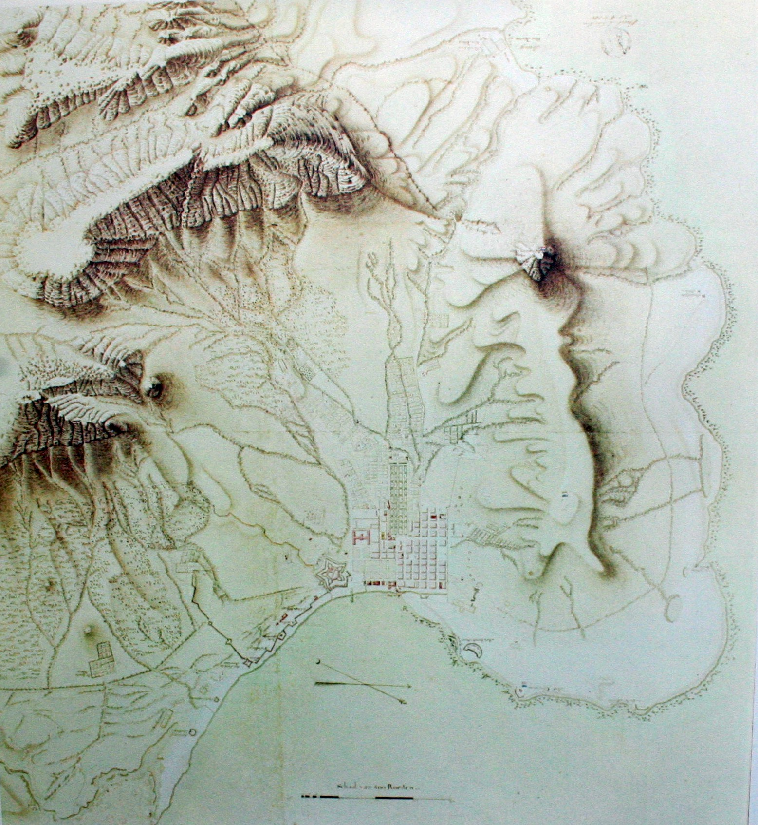 Map of Cape Town and the Castle drawn by Louis Michel Thibault